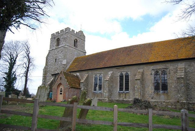 St Dunstan Church, Snargate A 13th century church on the Romney marshes.